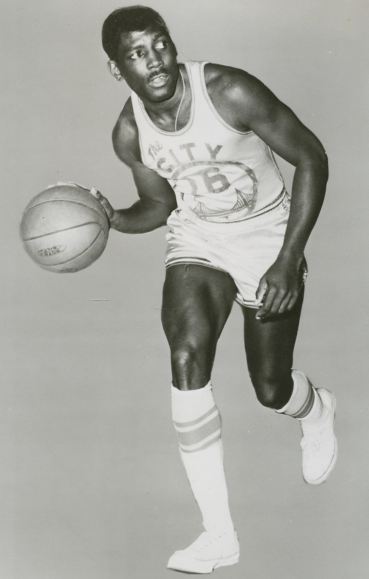 Golden State Warriors player Al Attles in a publicity photograph issued to the media in 1970